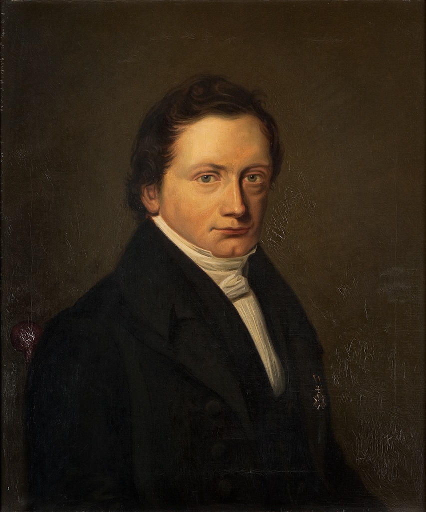 Portret van Herman de Ranitz (1794-1846) curator University of Groningen 1843-1846